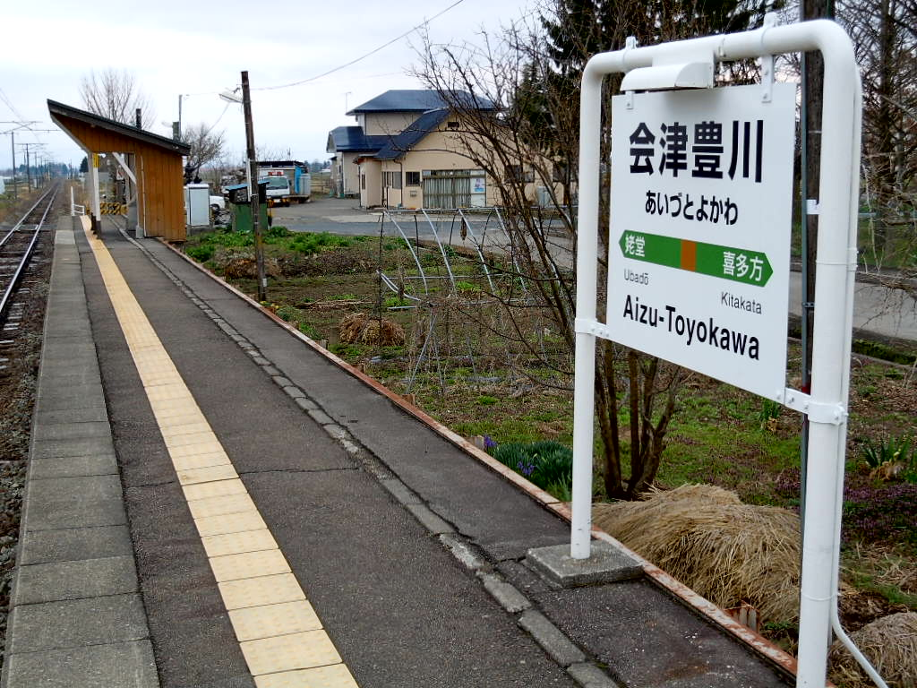 Aizu-Toyokawa Station on West Ban'etsu Line